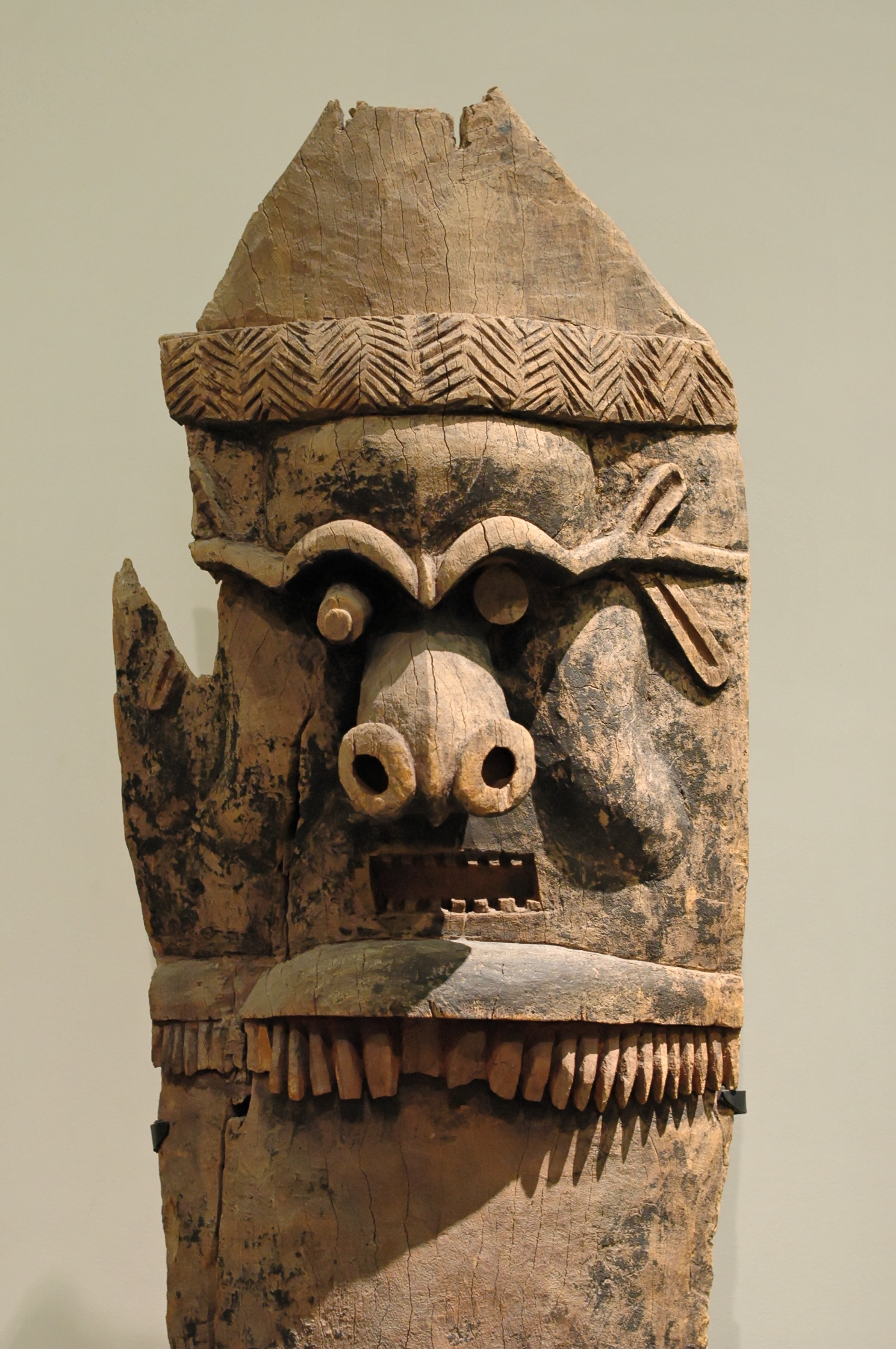 Kanak doorpost (detail) for a large ceremonial house, Kanak sculpture. Houp wood, New Caledonia, 17th century.